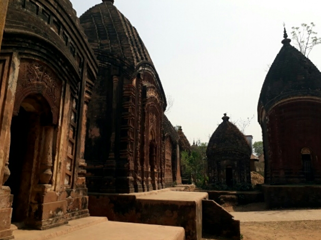 Temples of Maluti, Jharkhand